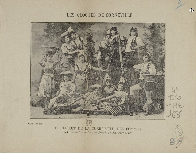 Photomechanical print of a photo by Nadar of the ballet of the apple harvest. Reason for the print was the celebration of the 100th show of Les cloches de Corneville on December 16 1892.